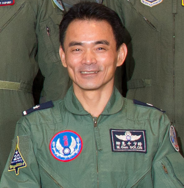 Maxwell AFB, Ala. - Group photo for the Combined Force Air Component Commanders Course 18A at the Air Force Wargaming Insitute.Major General Hui-Chien Liu (Taiwan Air Force).